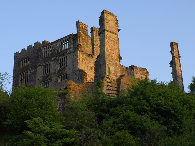 Berry Pomeroy Castle. From further east than 152402. The striking ruins are partly illuminated by the lowering sun.